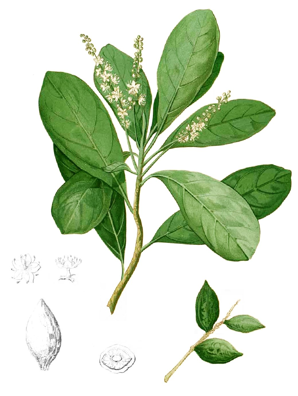 Plate from book Terminalia sumatrana